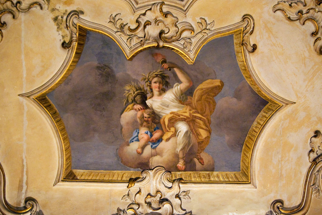 The Summer, personified by the goddess Ceres.